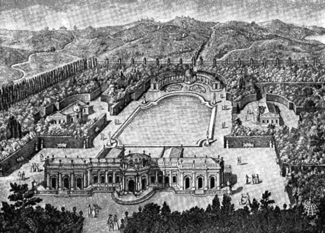 The Chinese palace in Oranienbaum, Russia (first published in 1796)